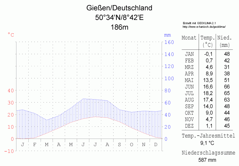 climate chart in the format by Walther and Lieth, metric, °Celsisus and millimeters, made with Geoklima 2.1